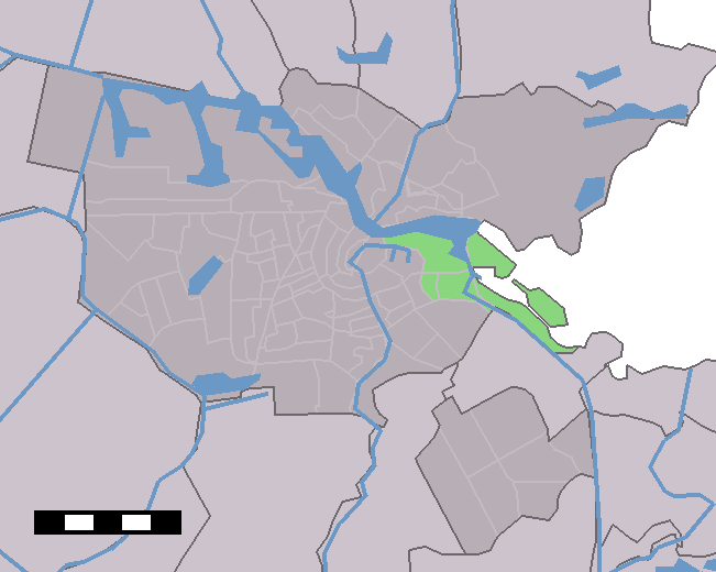 Location of neighbourhoods/districts in Amsterdam